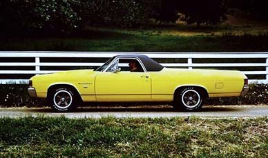 1972 Chevrolet El Camino